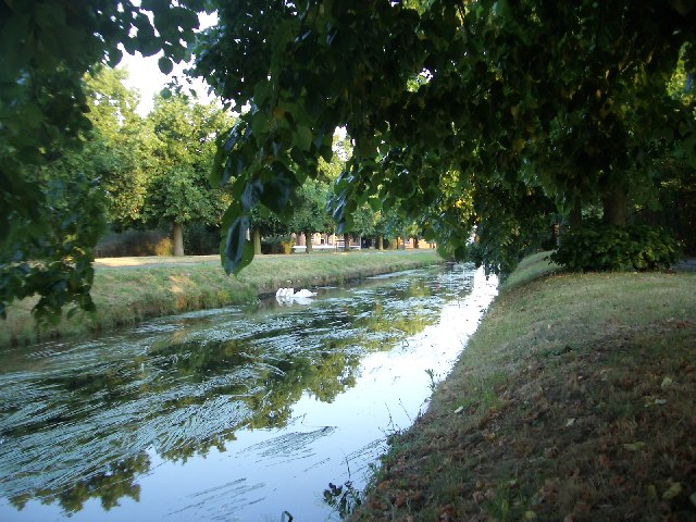 The Duke of Northumberland's River. The river and a path alongside it run through the sewage works and is a convenient (if smelly) shortcut between Twickenham and Isleworth for cyclists and pedestrians. It is an artificial watercourse owned and maintained by the Environment Agency. This stretch of the Duke's River is fed from the River Crane at Mereway Road, Twickenham and discharges into the Thames at Mill Plat, Isleworth.